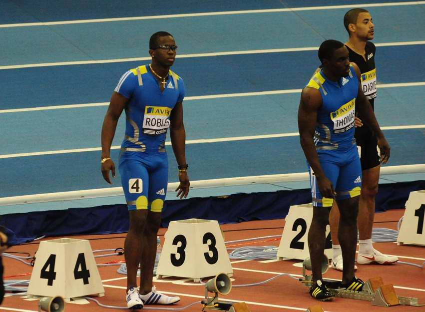 Dayron Robles, Dwight Thomas and Garfield Darien, U.K Athletics, AVIVA GRAND PRIX, Birmingham.